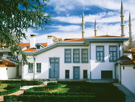 bahaullah-house-in-edirne